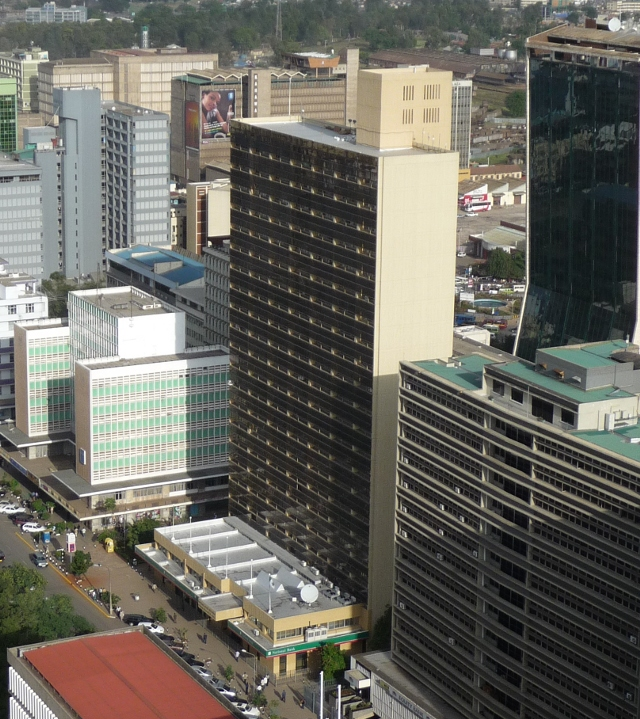 National Bank Building, Nairobi CBD